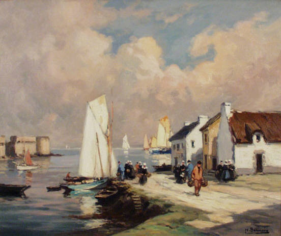 Work of Henri Alphonse Barnoin